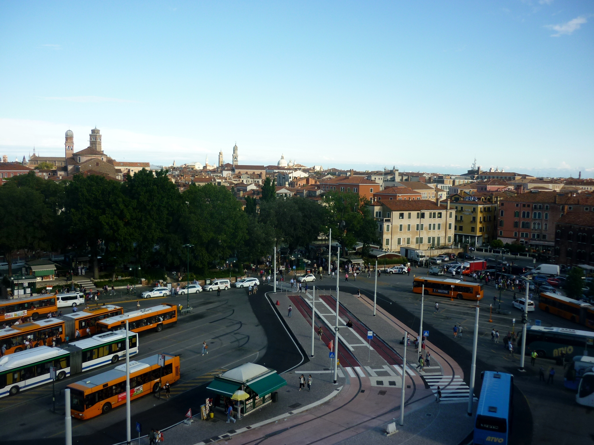 Piazzale Roma in Venice